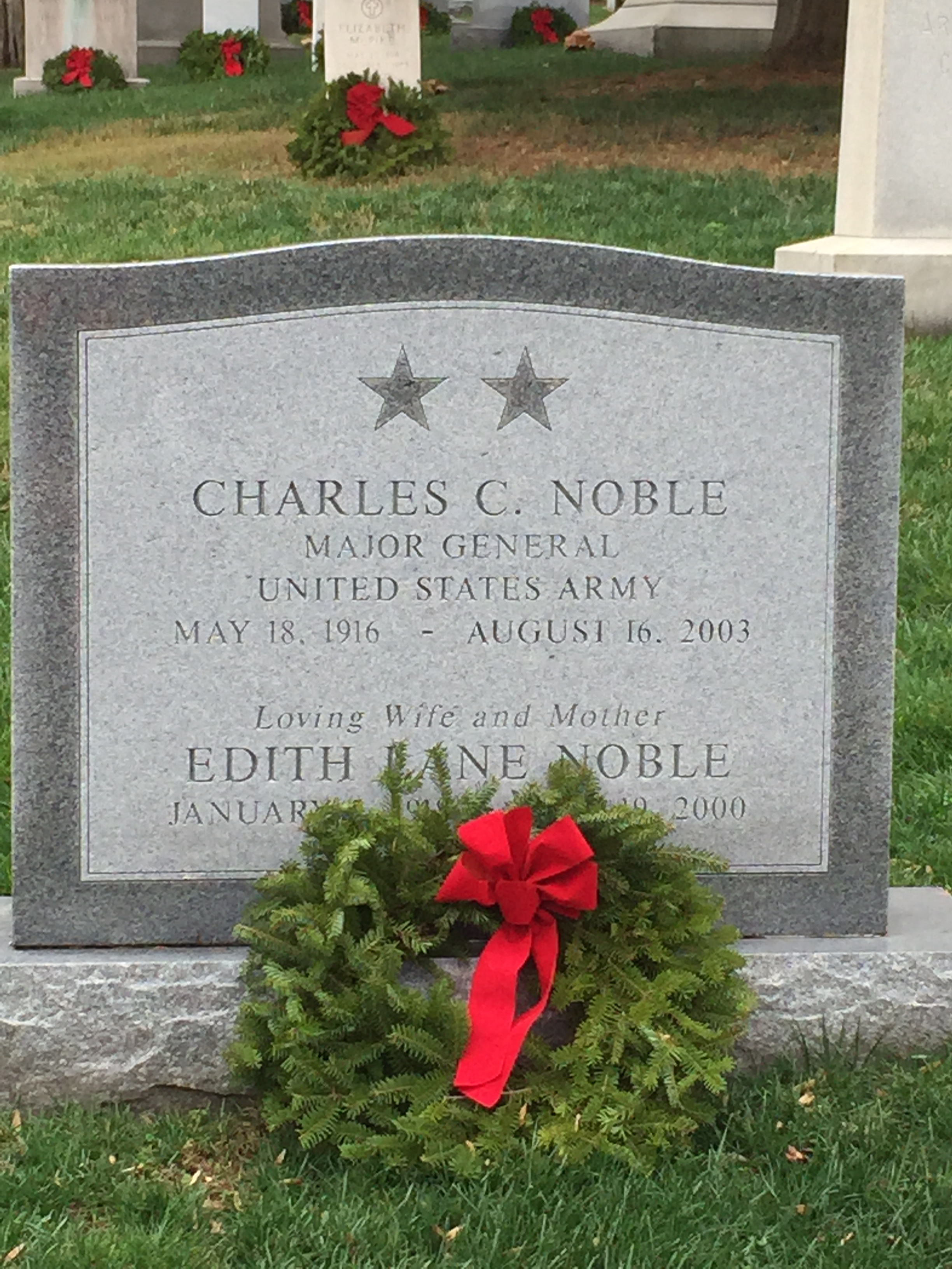 Gravesite of Maj. General Charles C. Noble in Arlington Cemetary